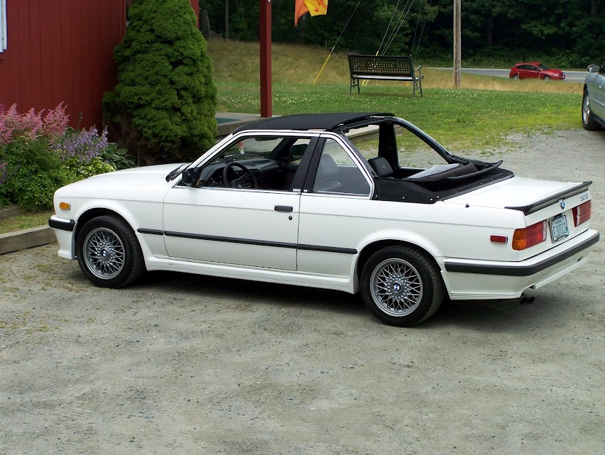 This photo was taken in the summer 2012 of my 1985 Baur TC2, this vehicle is located in the northeastern USA The Photo was taken in Vermont.